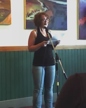 Poet Meliza Bañales reading at a benefit for Lynnee Breedlove's book Godspeed in 2006.